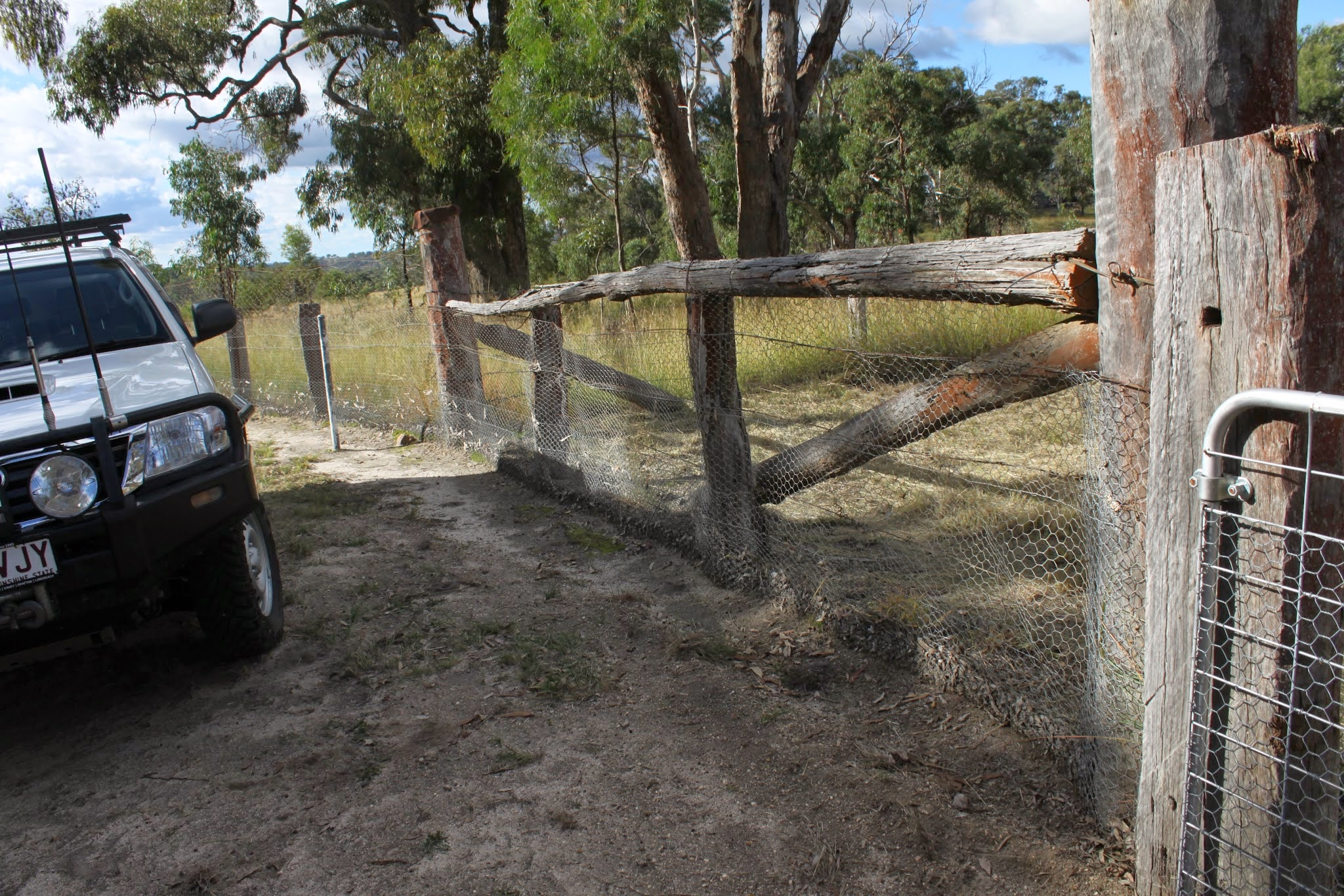 DDRMB Inspectors maintain and regularly visit the fence